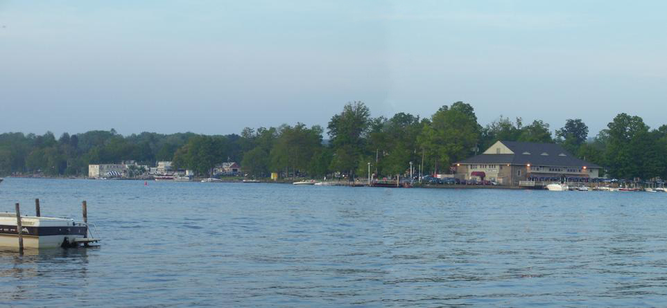 I took the picture myself